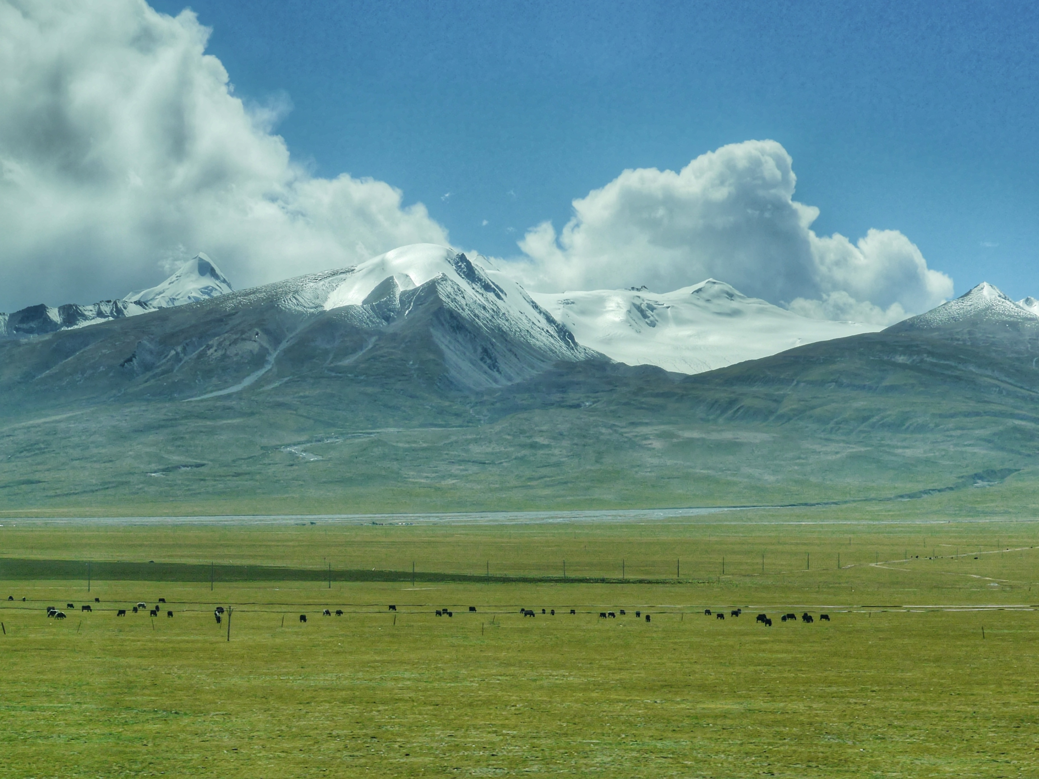 Amazing scenery along the 22-hour train ride from Lhasa to Qinghai